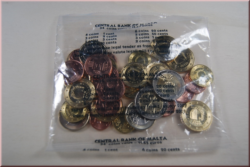 Maltese mini-Starter pack